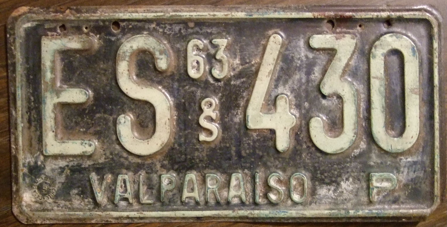 1963 Valparaiso Chile license plate, private vehicle pale green on black.